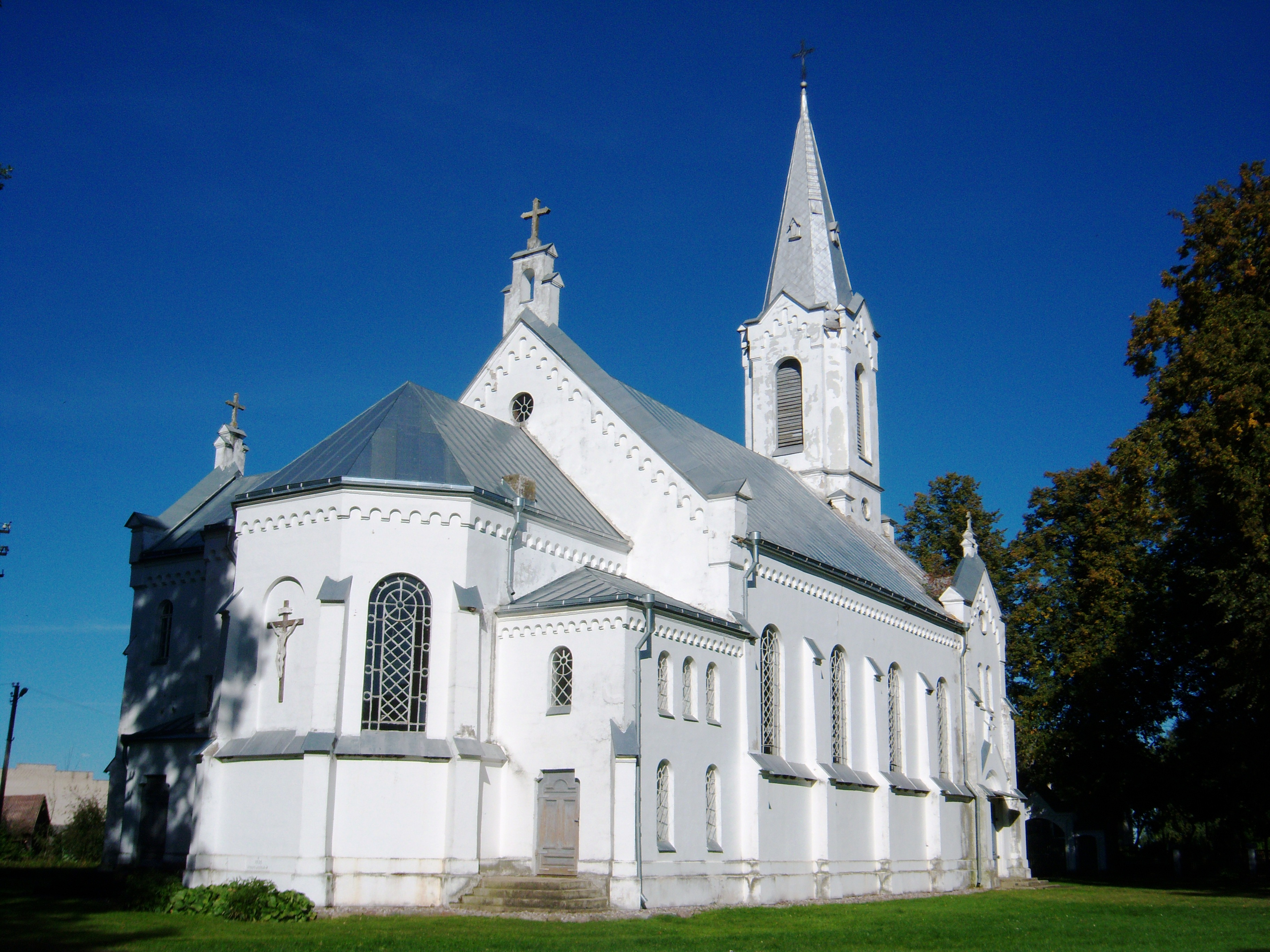 Catholic church in Barzdai, Šakiai District, Lithuania